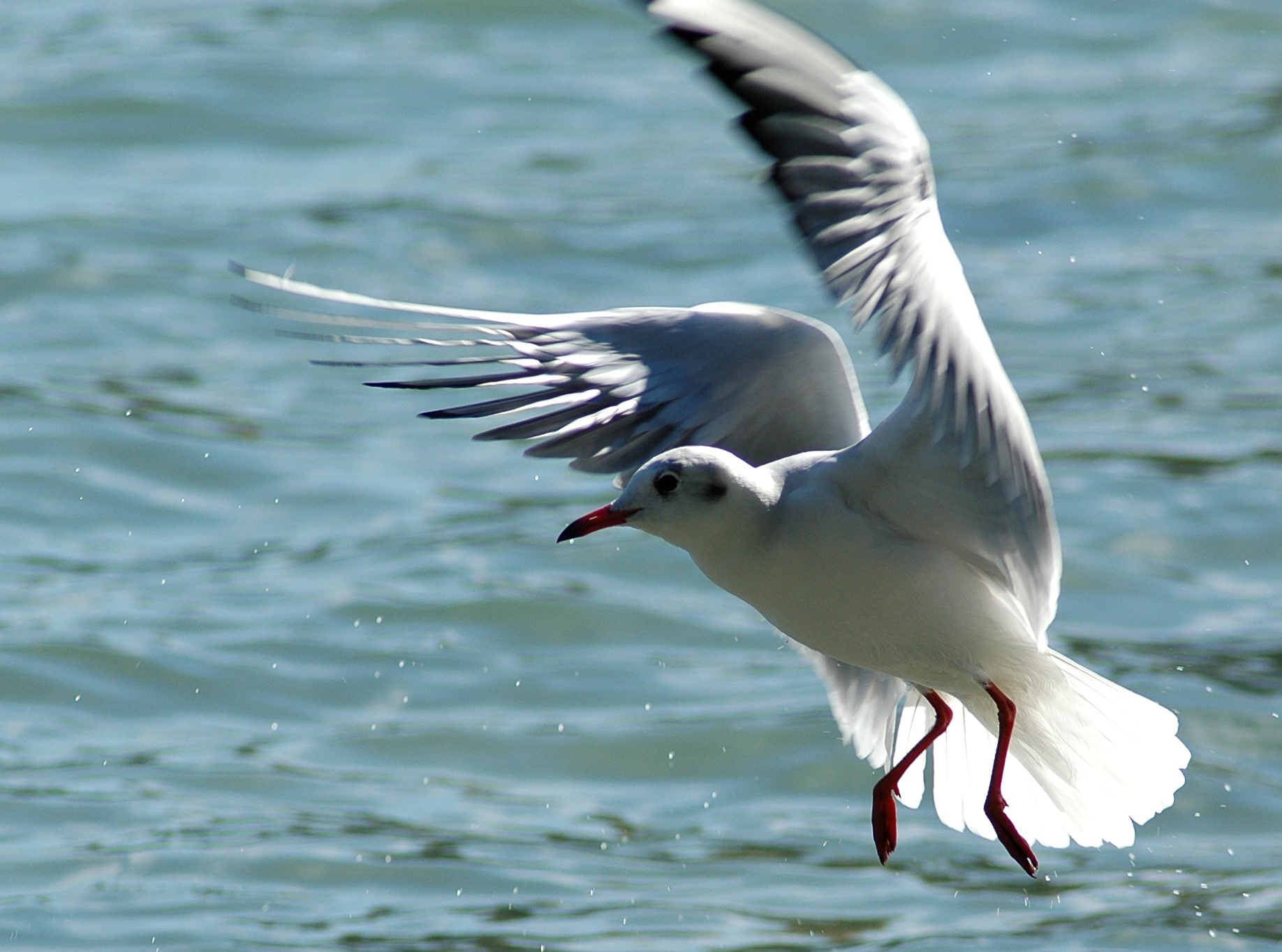 Black-headed gull (Larus ridibundus)